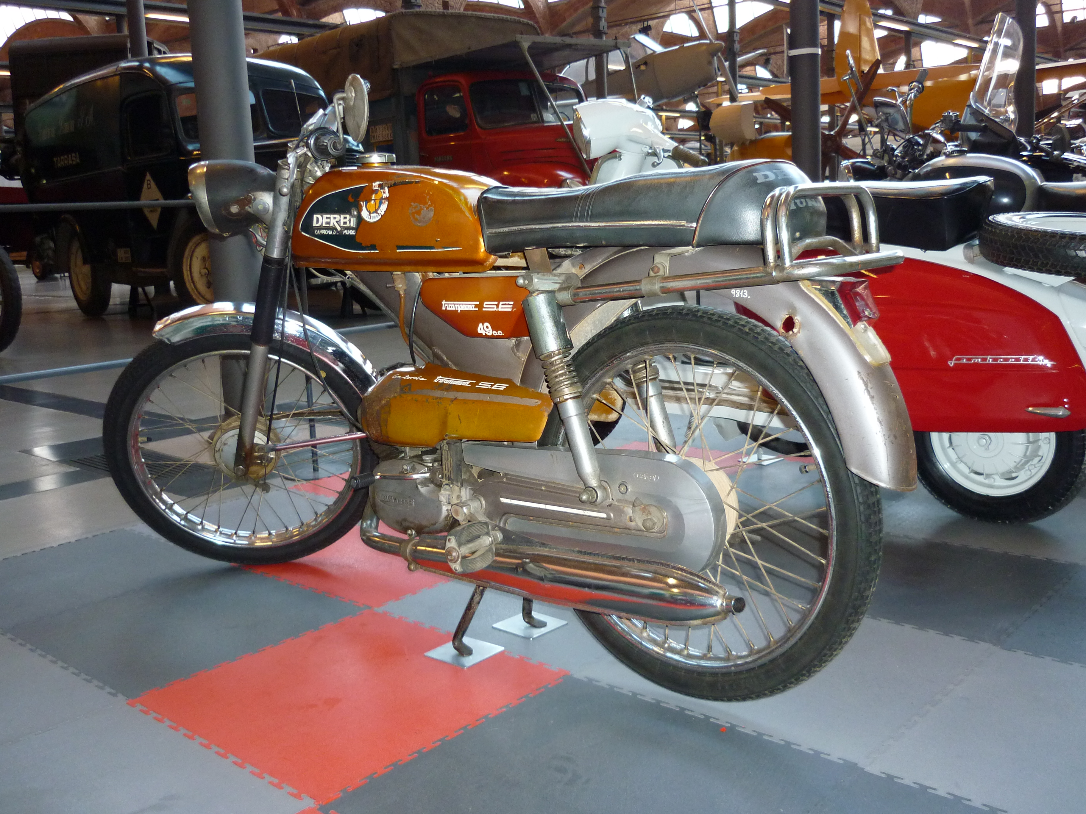 Derbi Antorcha Tricampeona SE 49cc (1974)